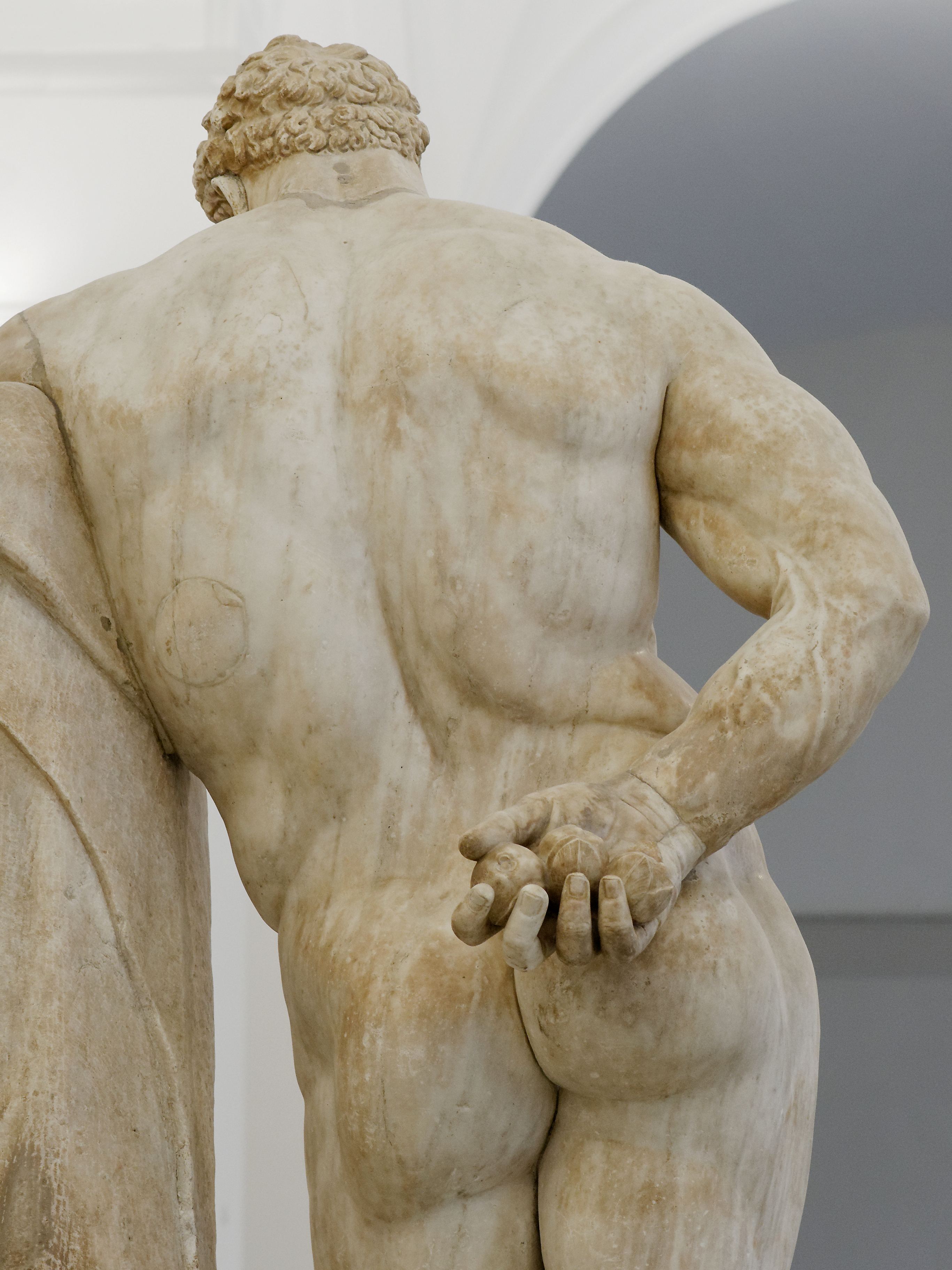 Statue of Herakles at rest carrying fruit in his right hand, detail. Roman copy of the Imperial era after a Greek original of the Early Hellenistic era; the left forearm is restored in plaster.